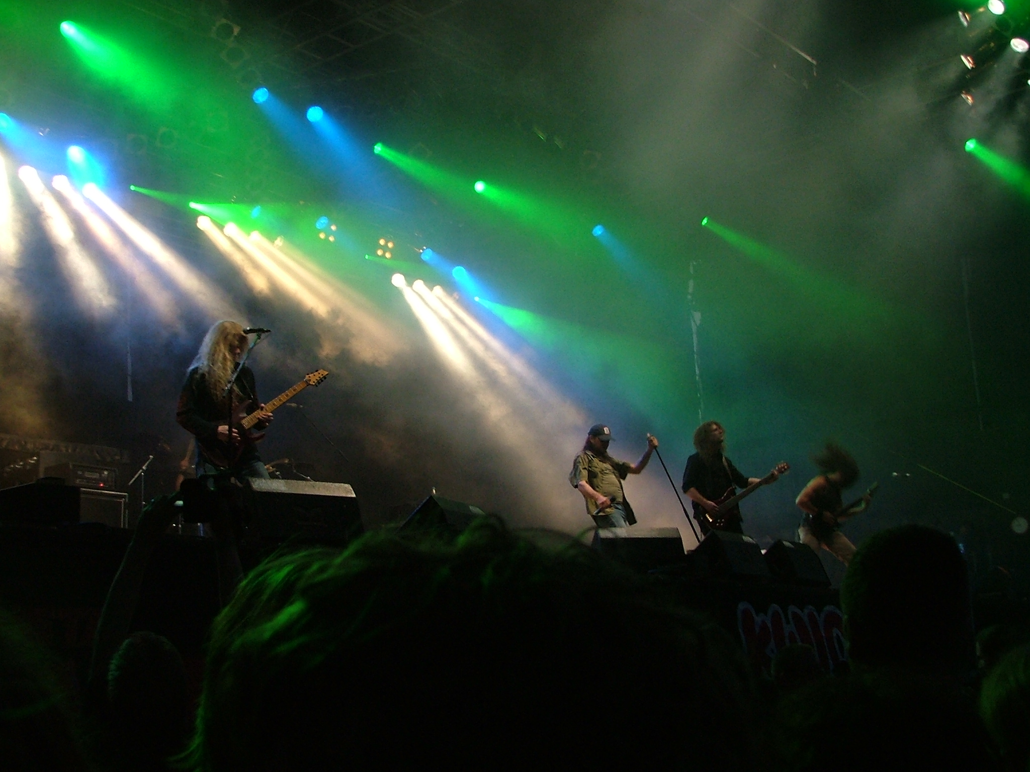 USAmerican progressive metal band Nevermore at the Summer Breeze in Dinkelsbühl